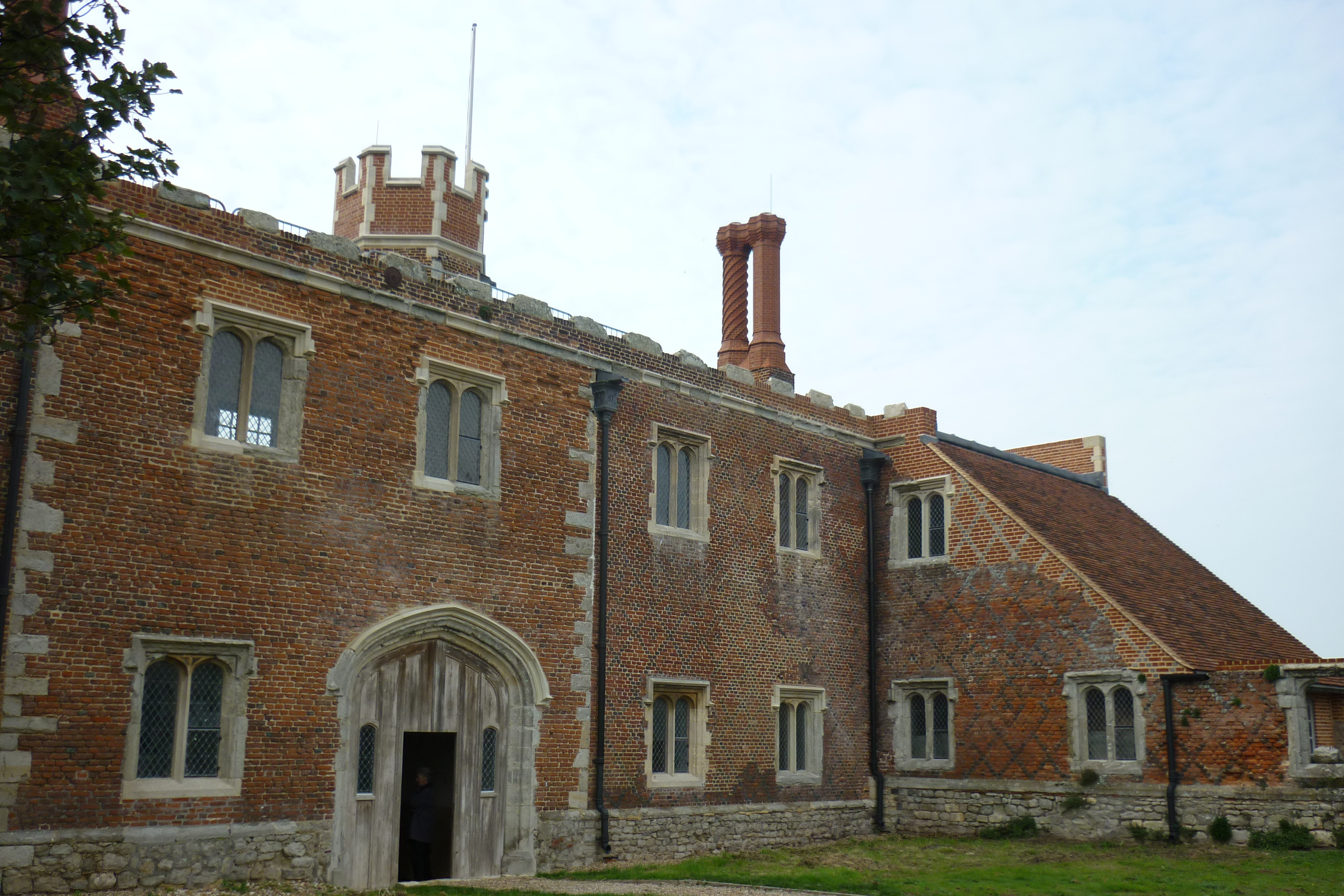 Remains of Tudor Palace